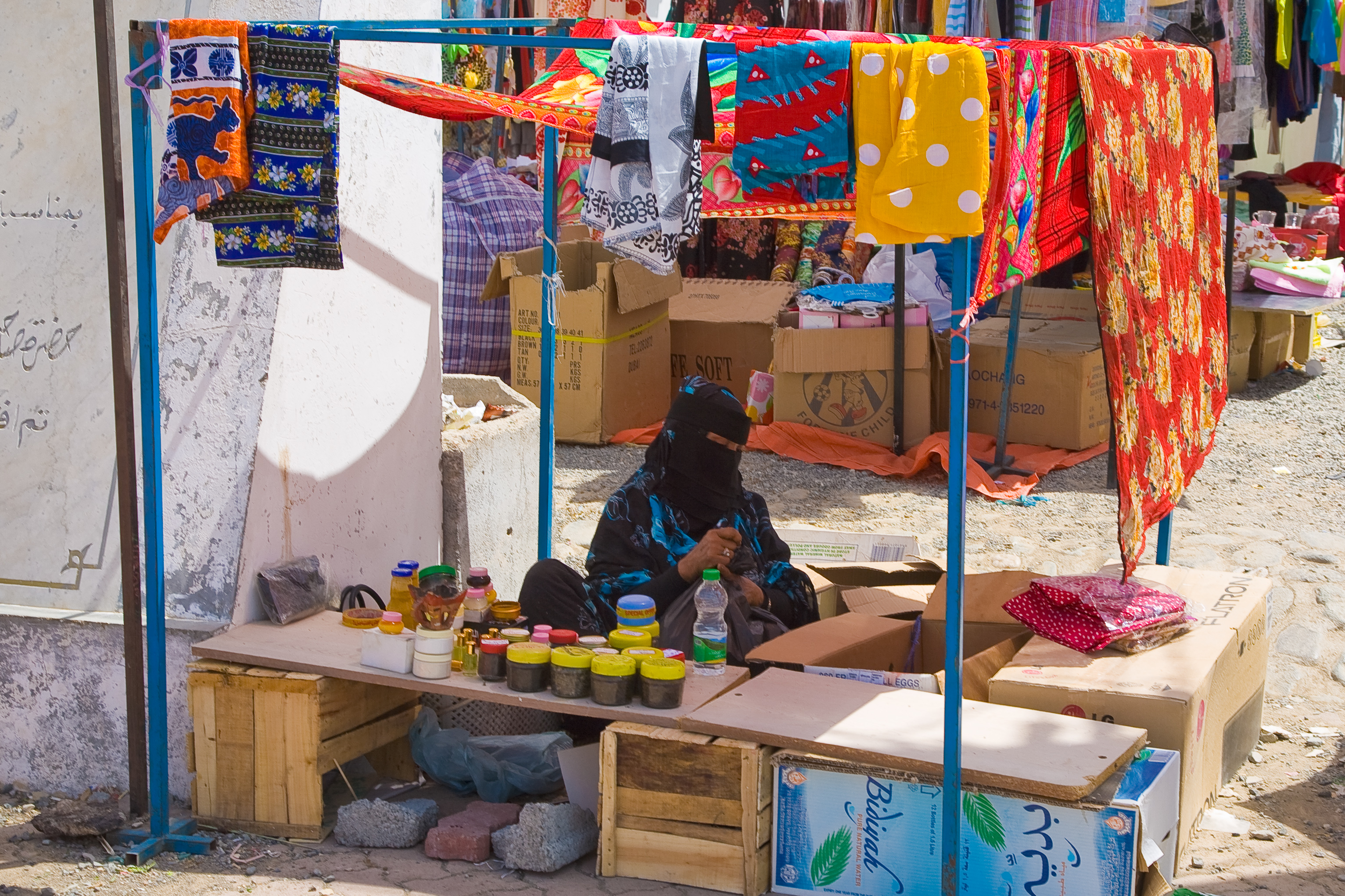 Ibra, Oman